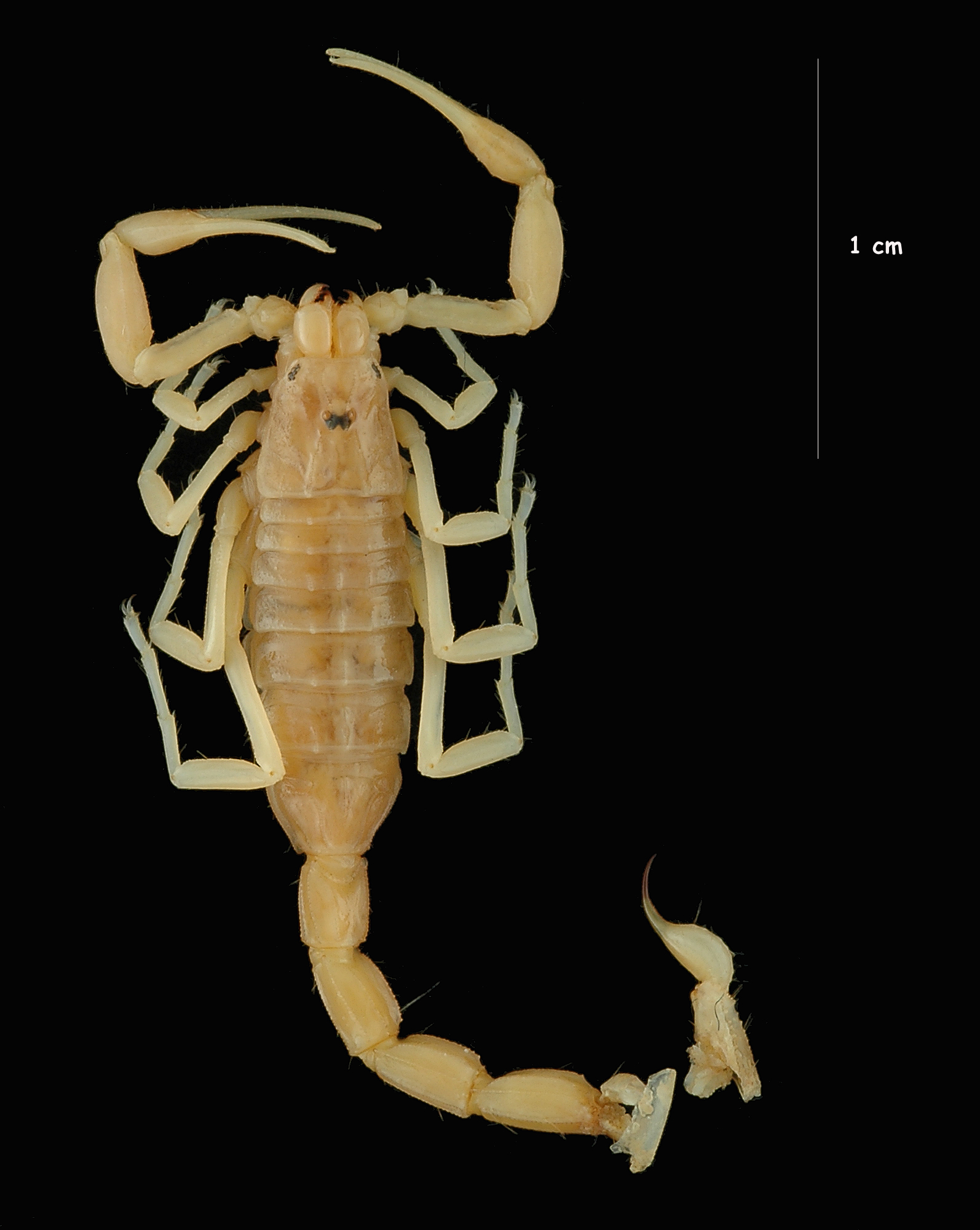 A new Genus and Species of Scorpion from Afghanistan (Scorpiones, Buthidae). Bonner Zoologische Beitraege